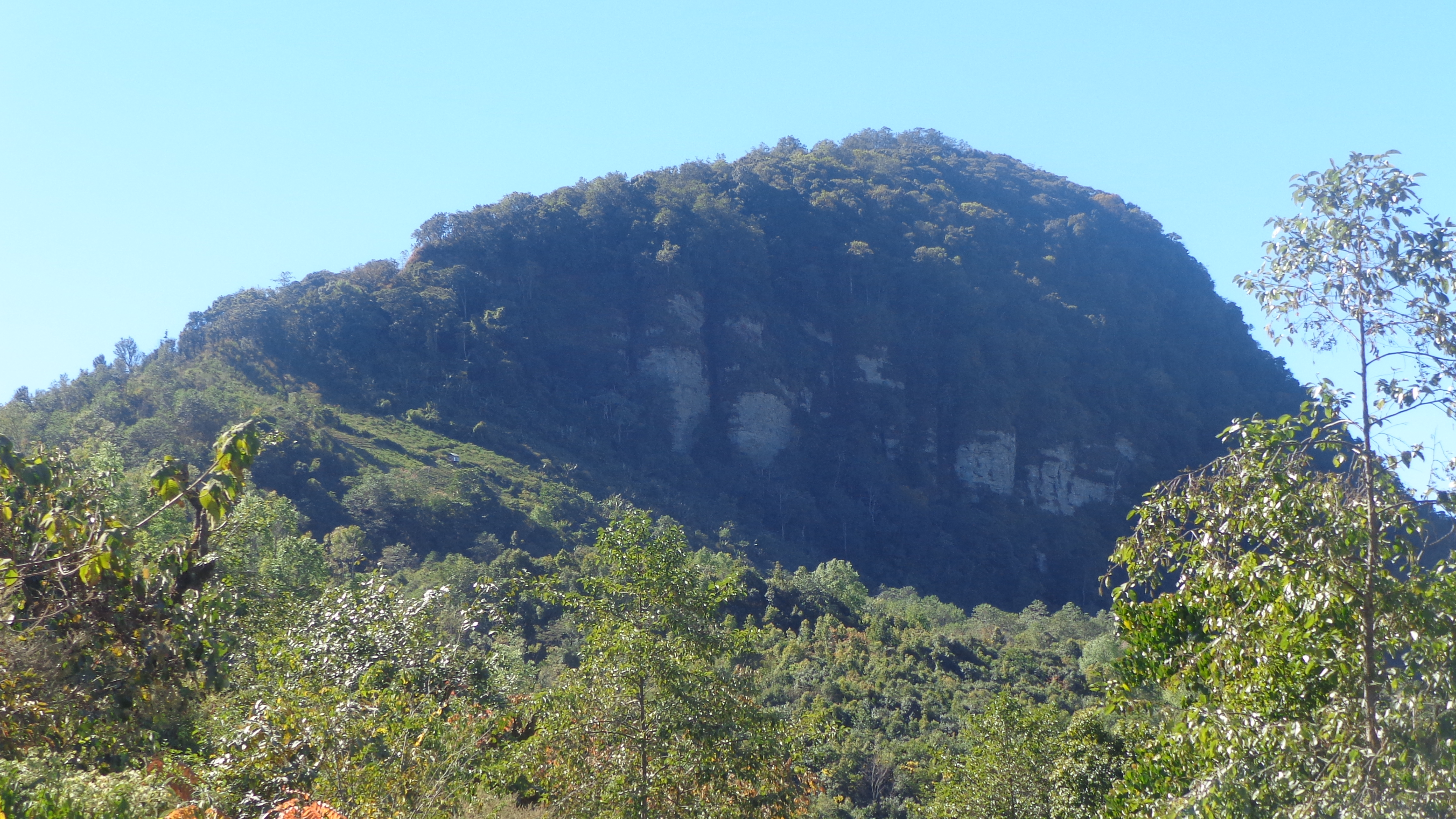 This is a picture which depicts the Tan tlang located in the village, Vaphai in the district of Champhai in Mizoram, India